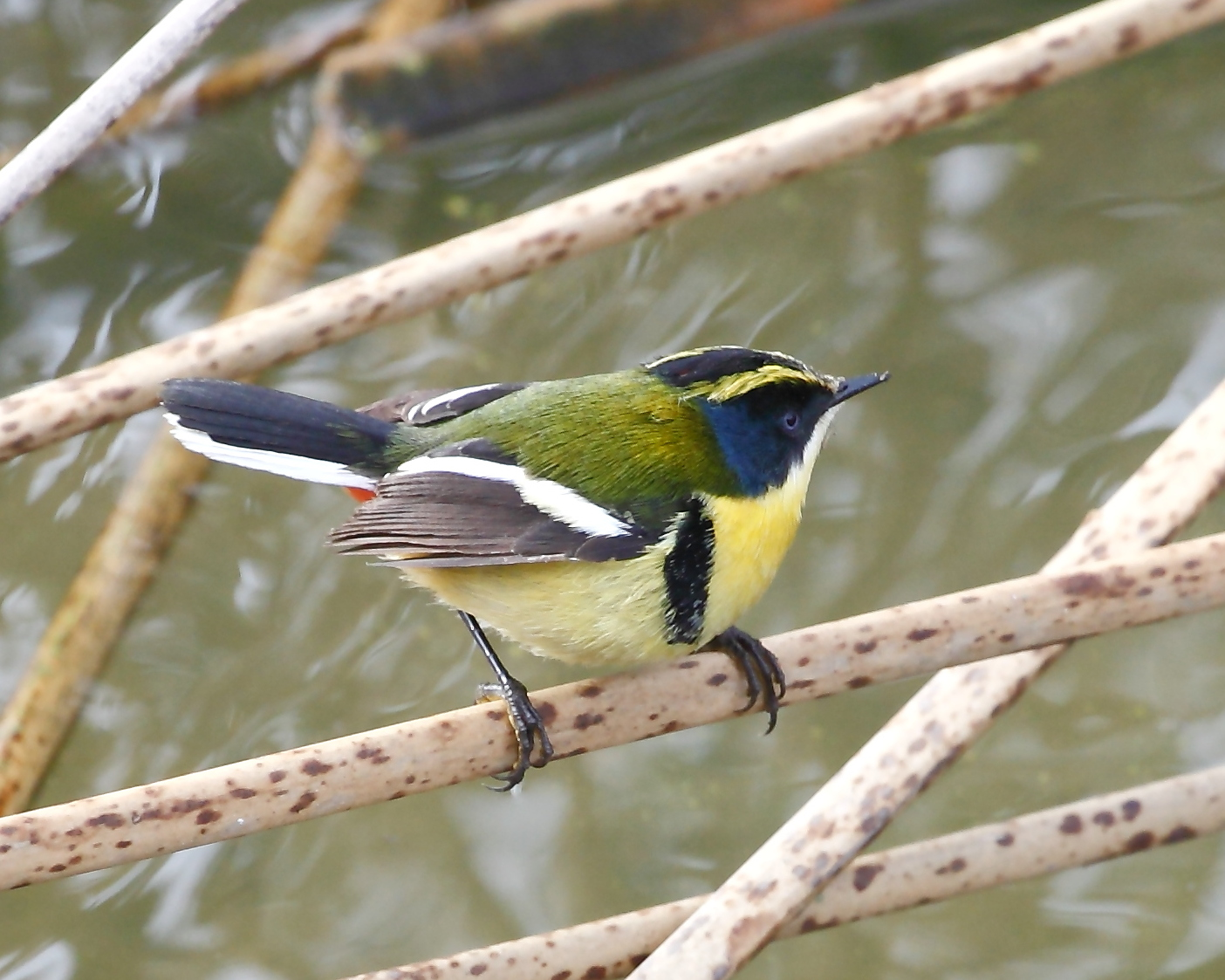 Many-coloured rush-tyrant at Montevideo, Uruguay